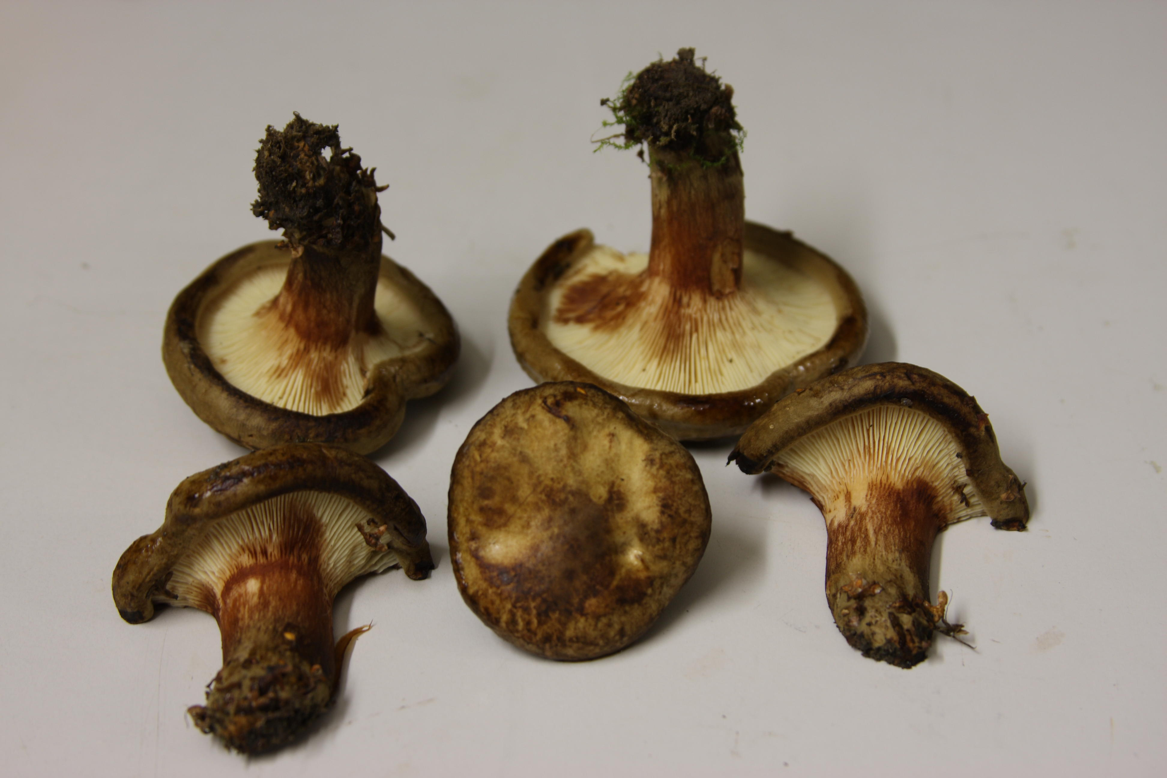 Fruit bodies of the fungus Paxillus involutus (Batsch) Fr. Specimens collected in Briggs Ranch, Folsom, California, USA.